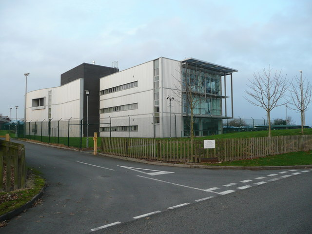 BT management centre building Situated by the A495 near Oswestry.